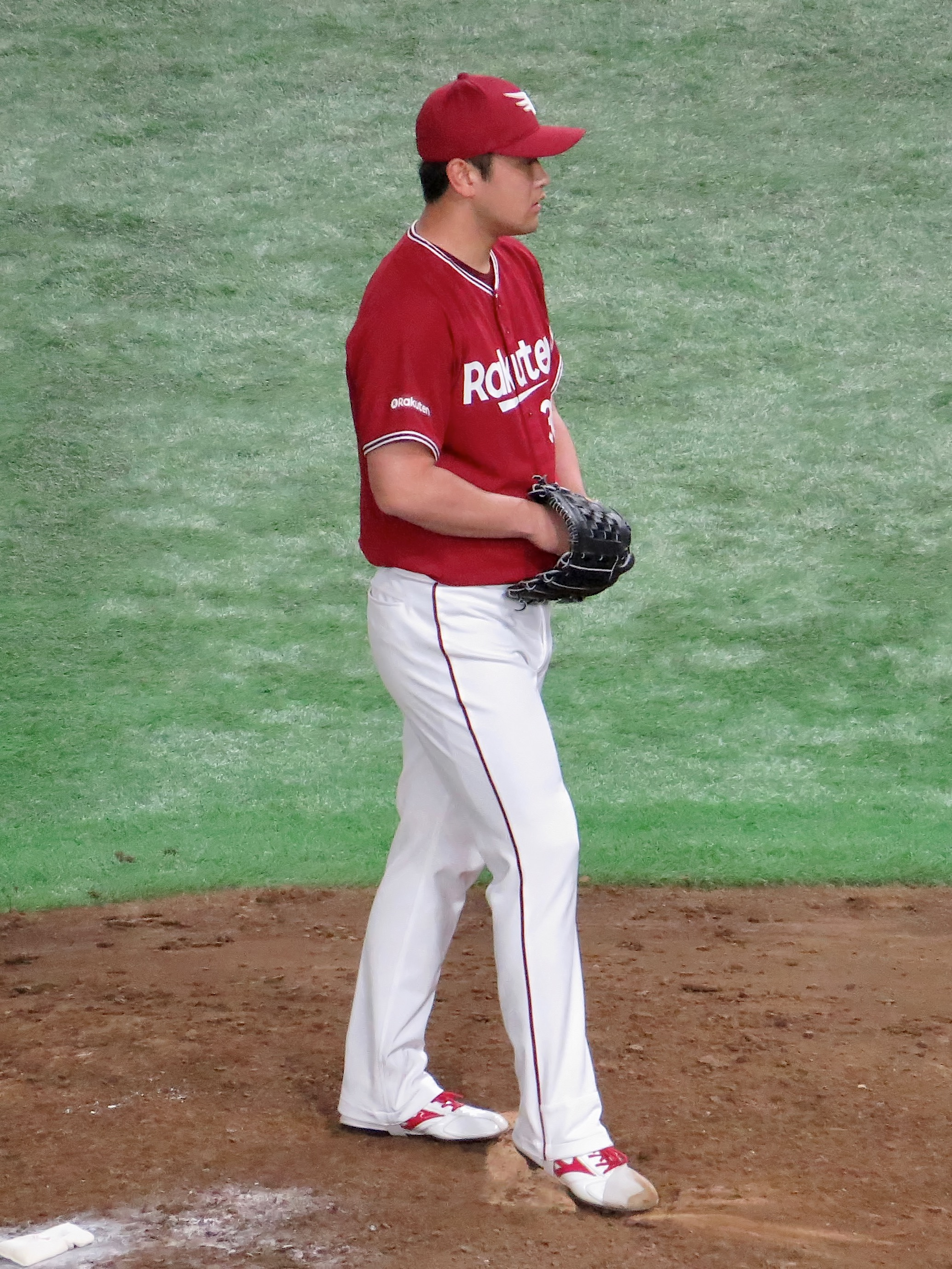 東北楽天ゴールデンイーグルスの選手。東京ドームにて。